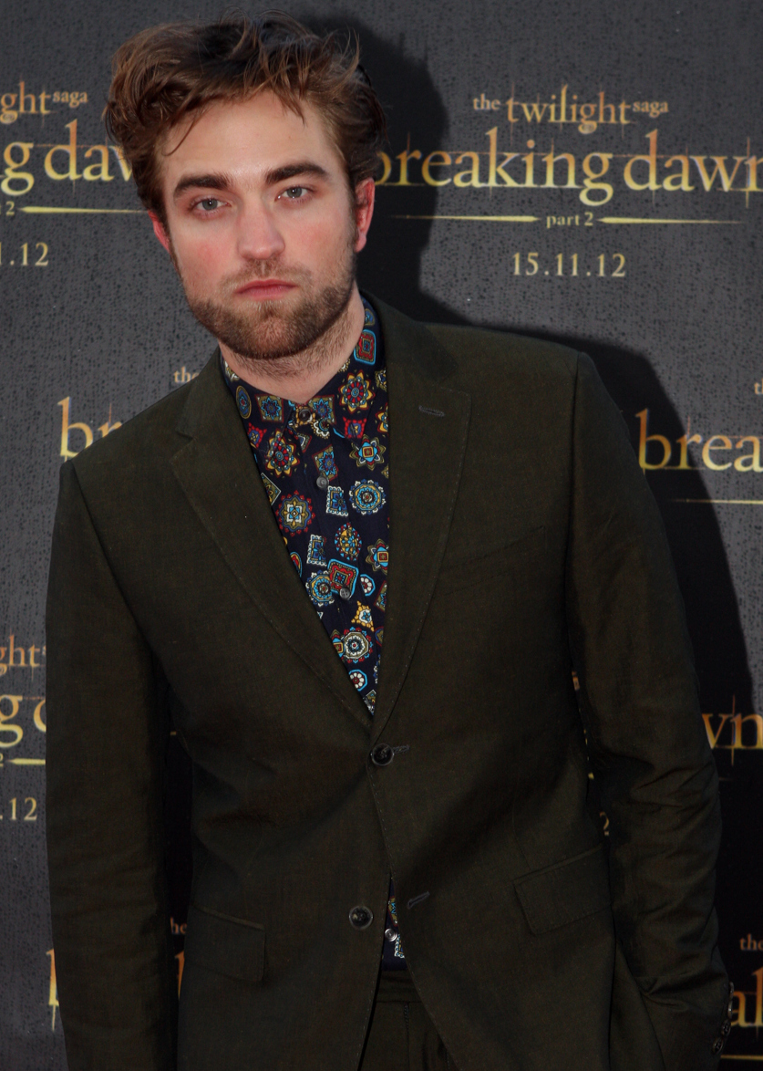 Robert Pattinson Promotes "Breaking Dawn - Part 2" In Sydney, October 2012.